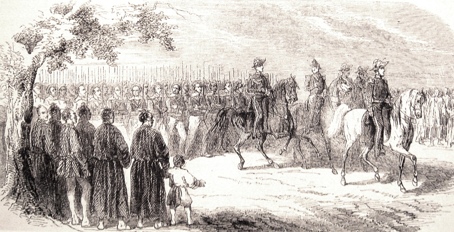 Rear-Admiral Guerin landing in Tomari, 1855